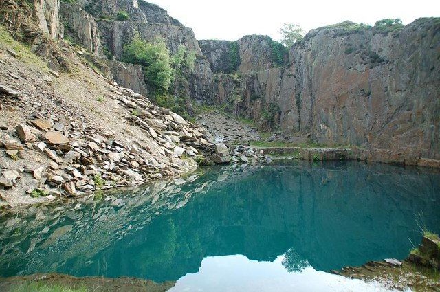 Blue Lake near Friog This image was taken with a Nikon d50 camera on an 18mm lens setting without a tripod. I tried to catch the water while it was still and I think I managed it. This water body is in an old quarry - note how clear the reflection is deep down. This water is really clear and has trout swimming about in it! try and visit if you can.